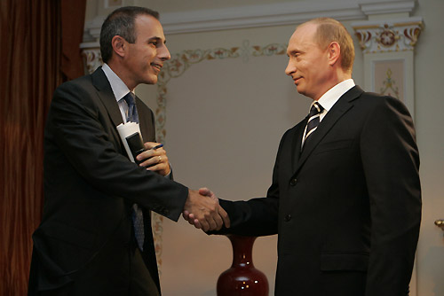 Novo-Ogaryovo. Interview with NBC Television (USA).